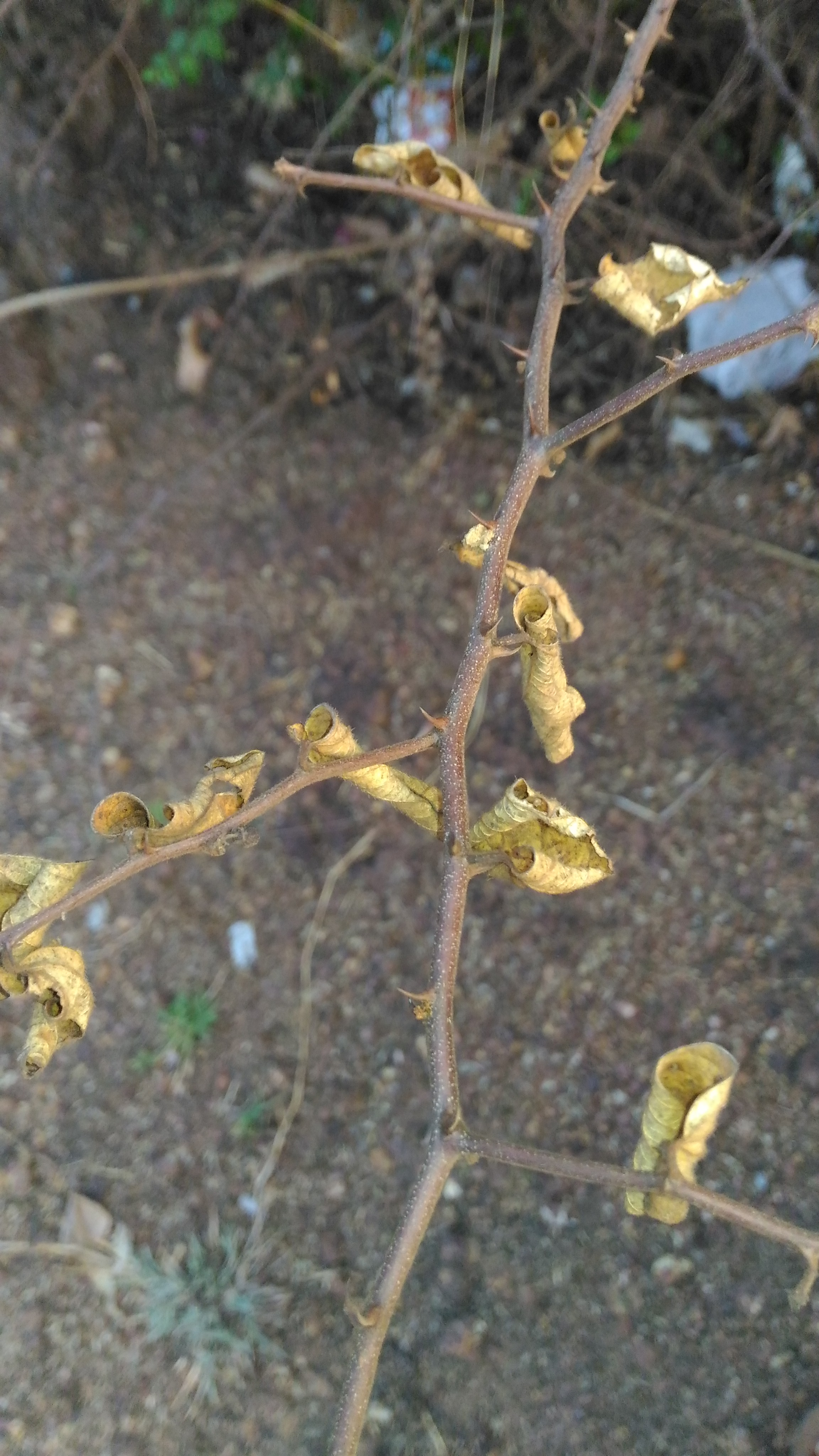 A plant with thorns